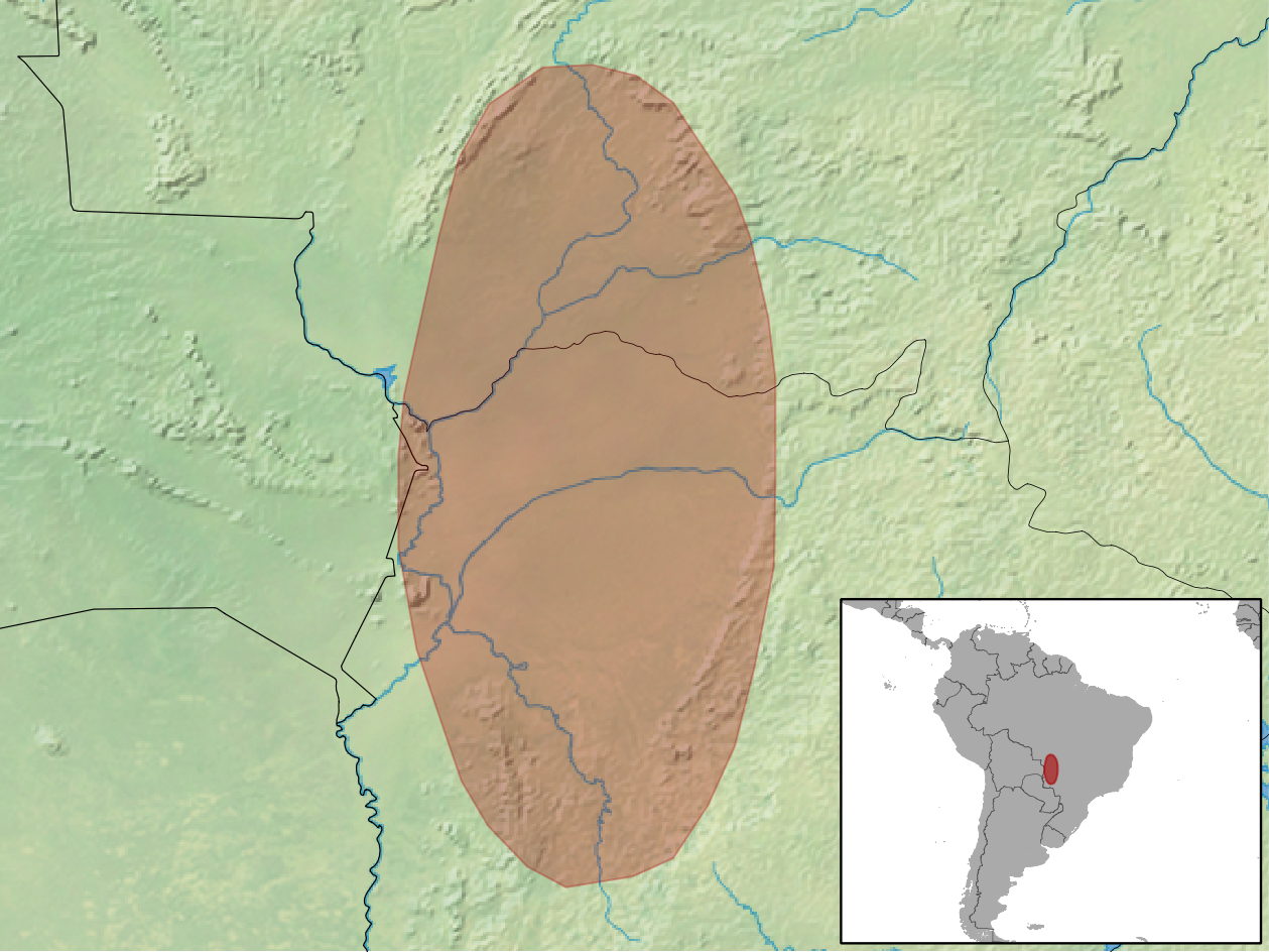 geographic distribution of Thrichomys pachyurus